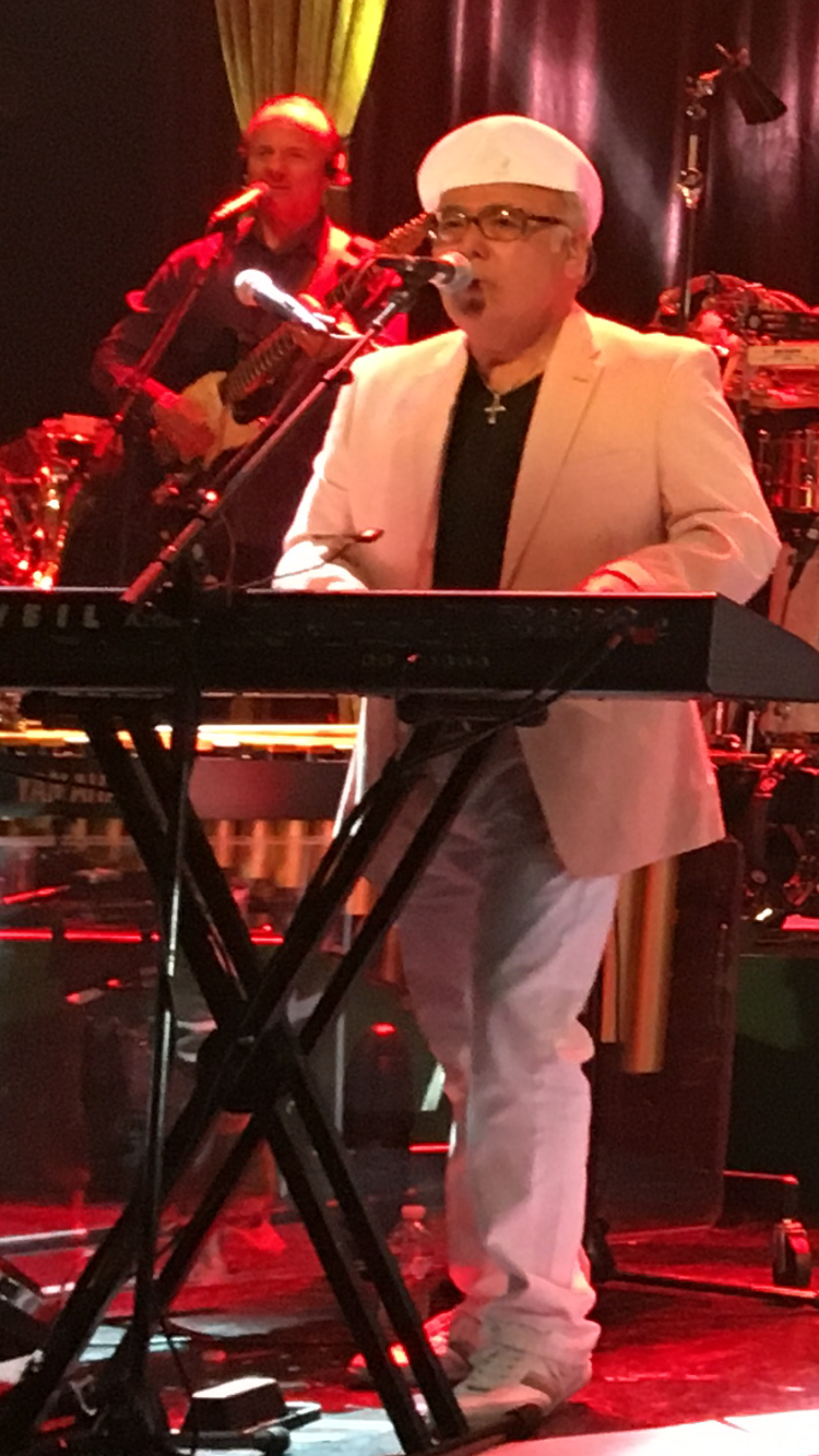 Bill Hinsche live 2017